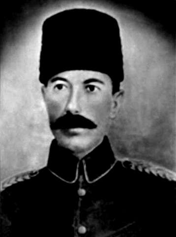 Colonel Cibranlı Halit Bey (1882-1925)